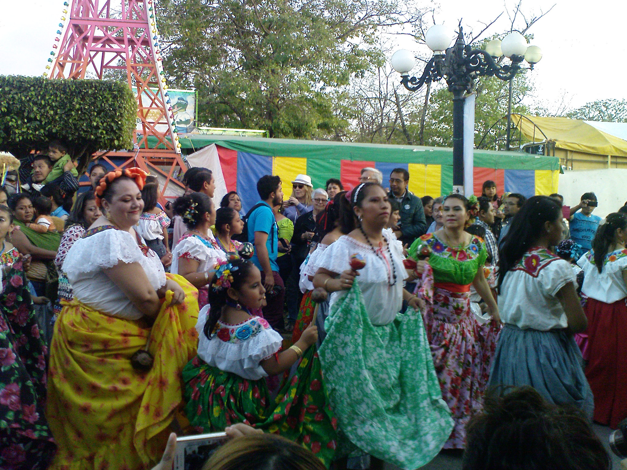 The Chuntas.